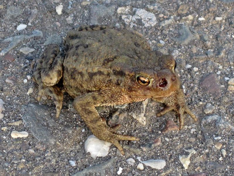 Lucilia bufonivora (Calliphoridae sp.) larvae in right nostril of common toad (Bufo bufo), Arnhem, the Netherlands